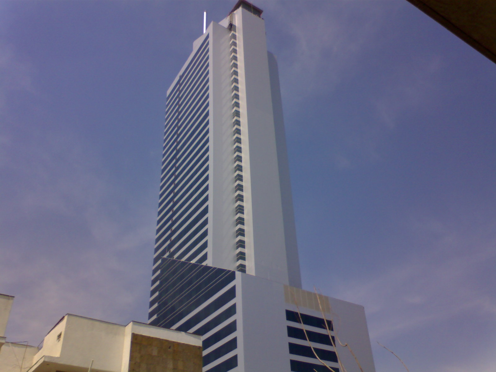 Riu Guadlajara from under the bridge Matute Remus